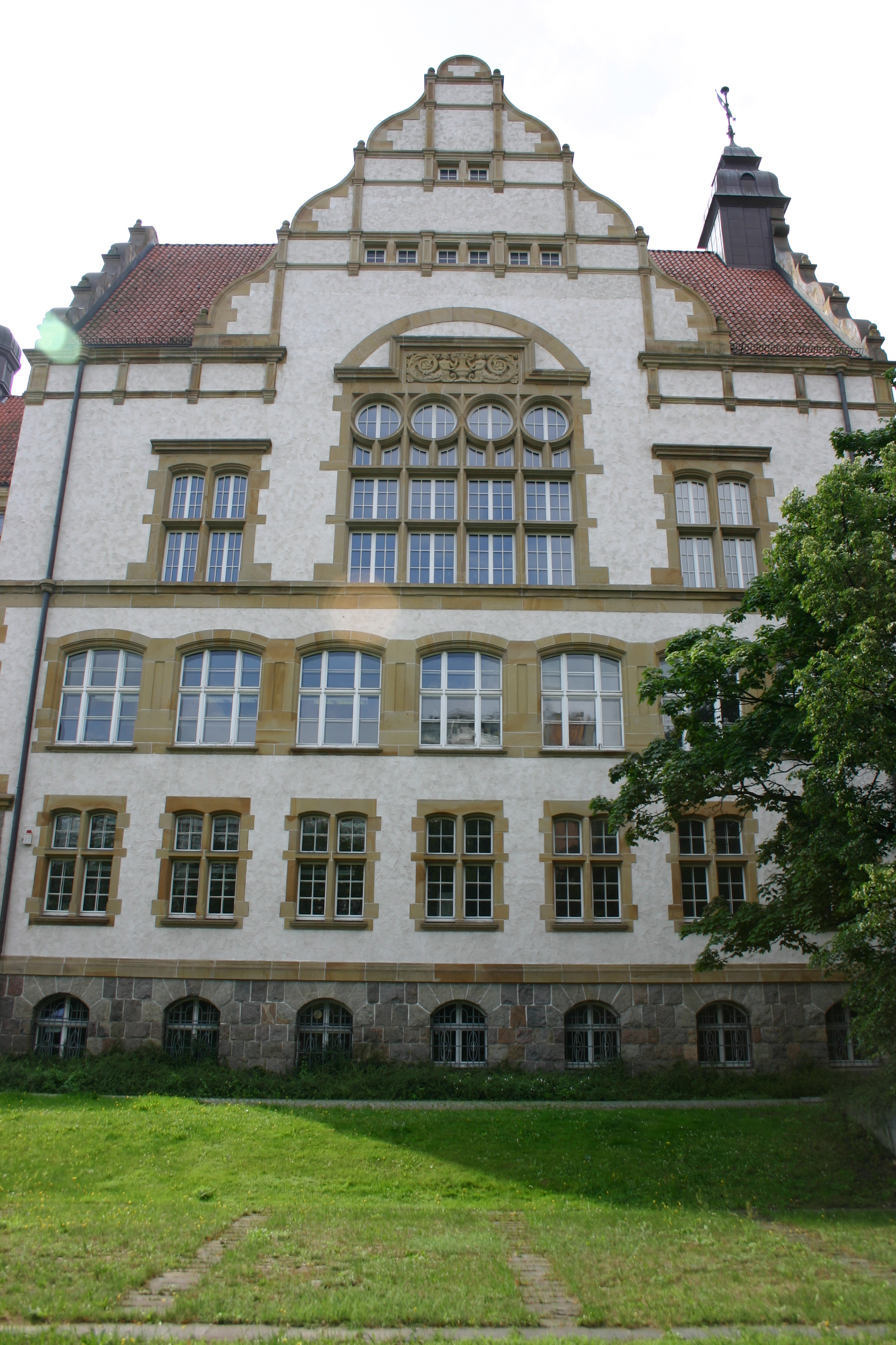 Karl-Liebknecht-Gymnasium (secondary school or high school "Karl Liebknecht") in Frankfurt (Oder), Brandenburg, Germany